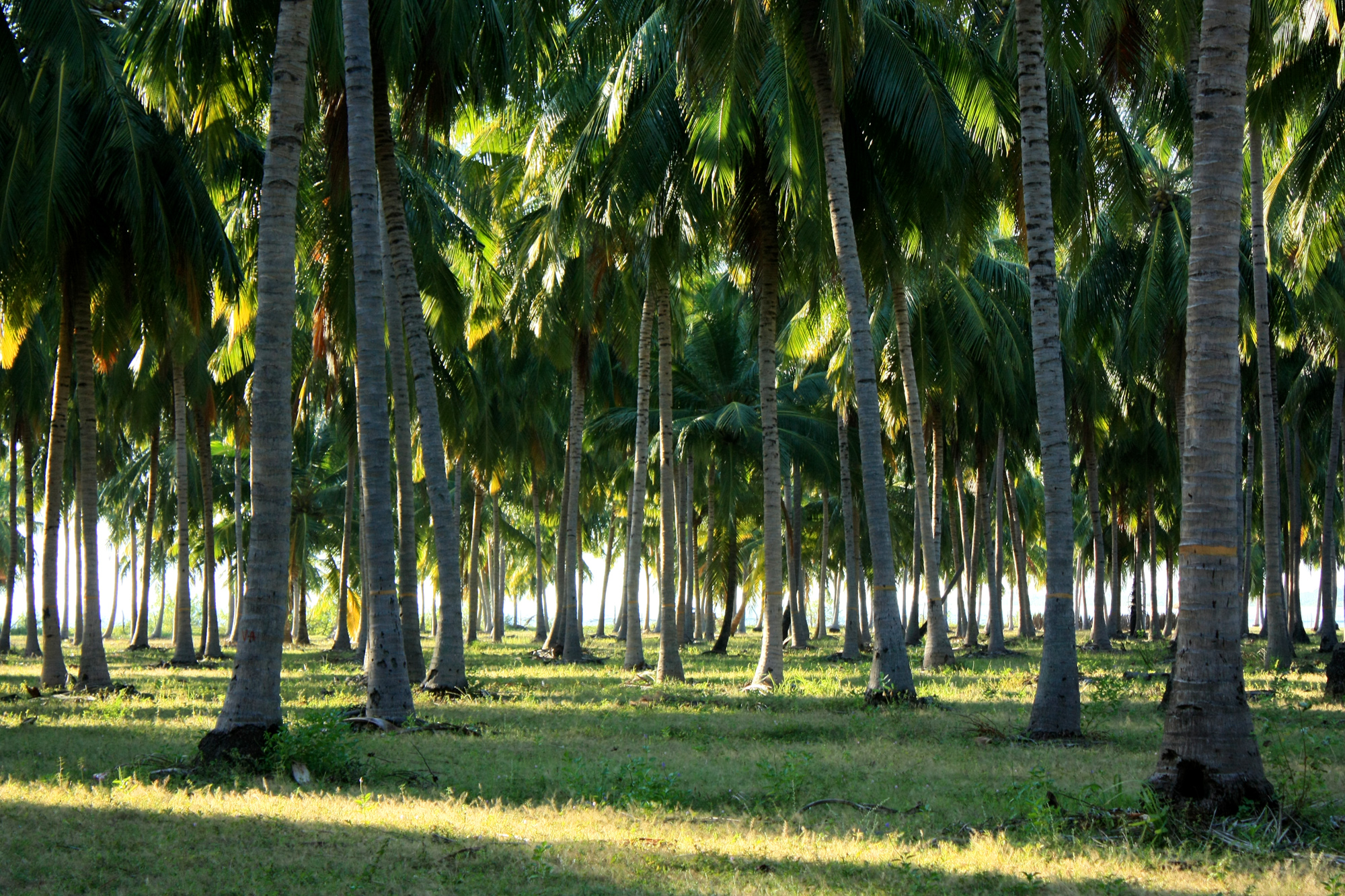 Coconut trees in Pasikudah, Batticaloa, Sri Lanka